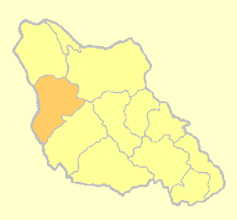 Location of Donji Vakuf municipality in Central Bosnian Canton